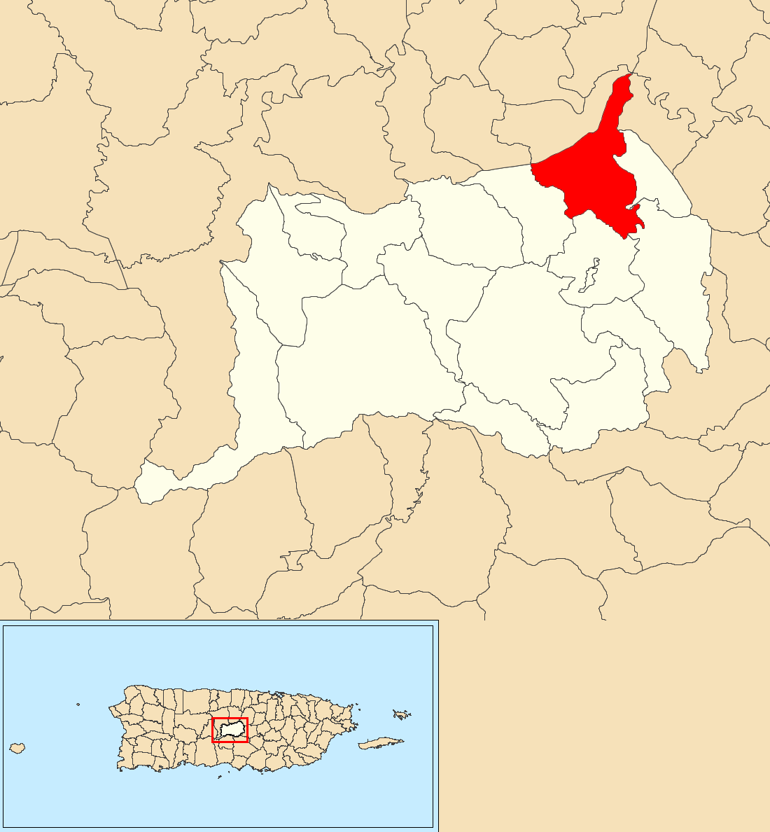 Gato, Orocovis, Puerto Rico locator map